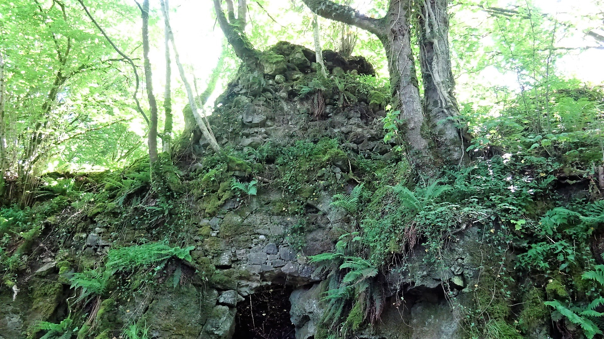 Duchal Castle, remnants from the old keep wall. View from the courtyard, Kilmacolm.